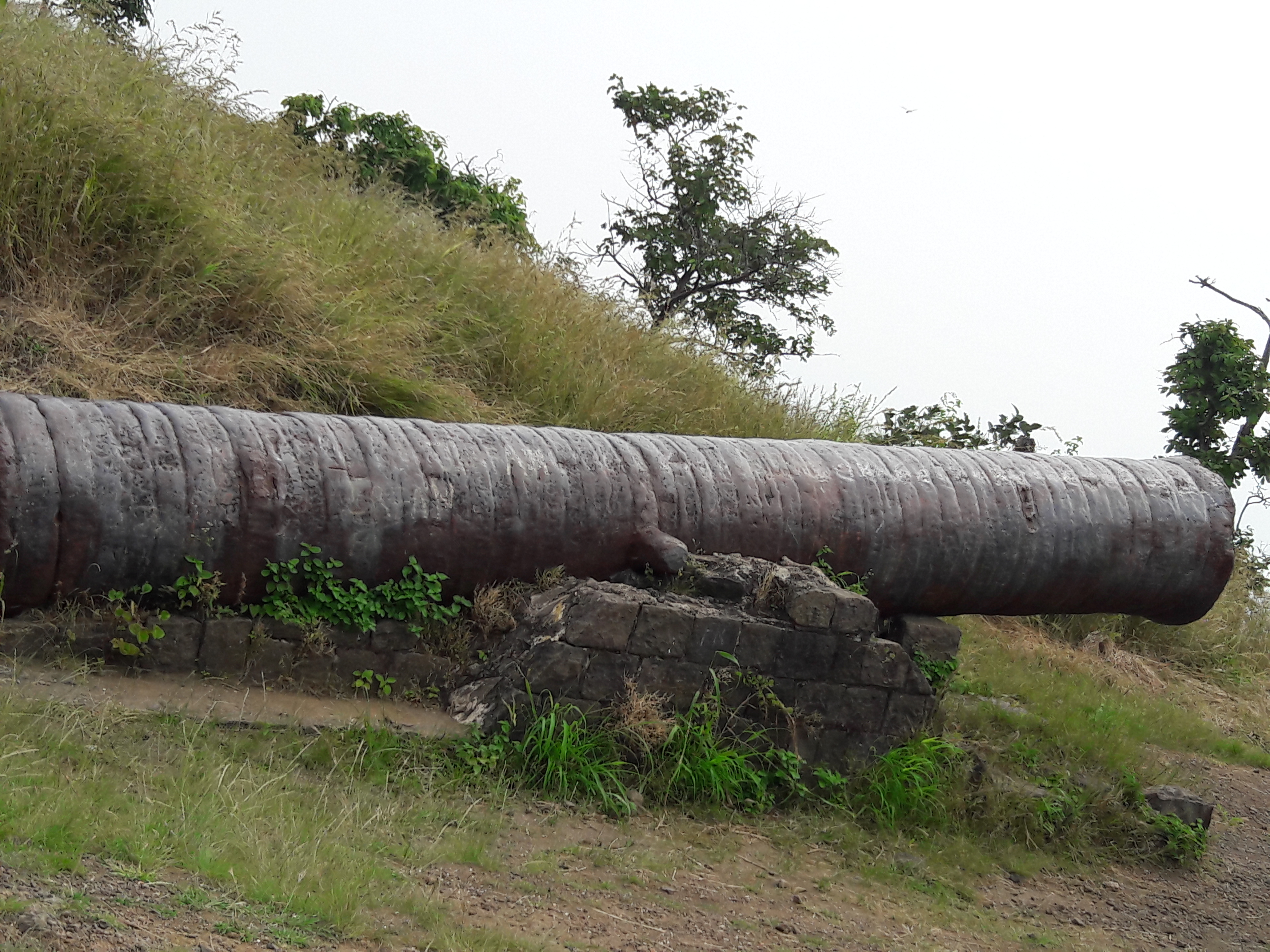 This Humongous Cannon is 27 feet